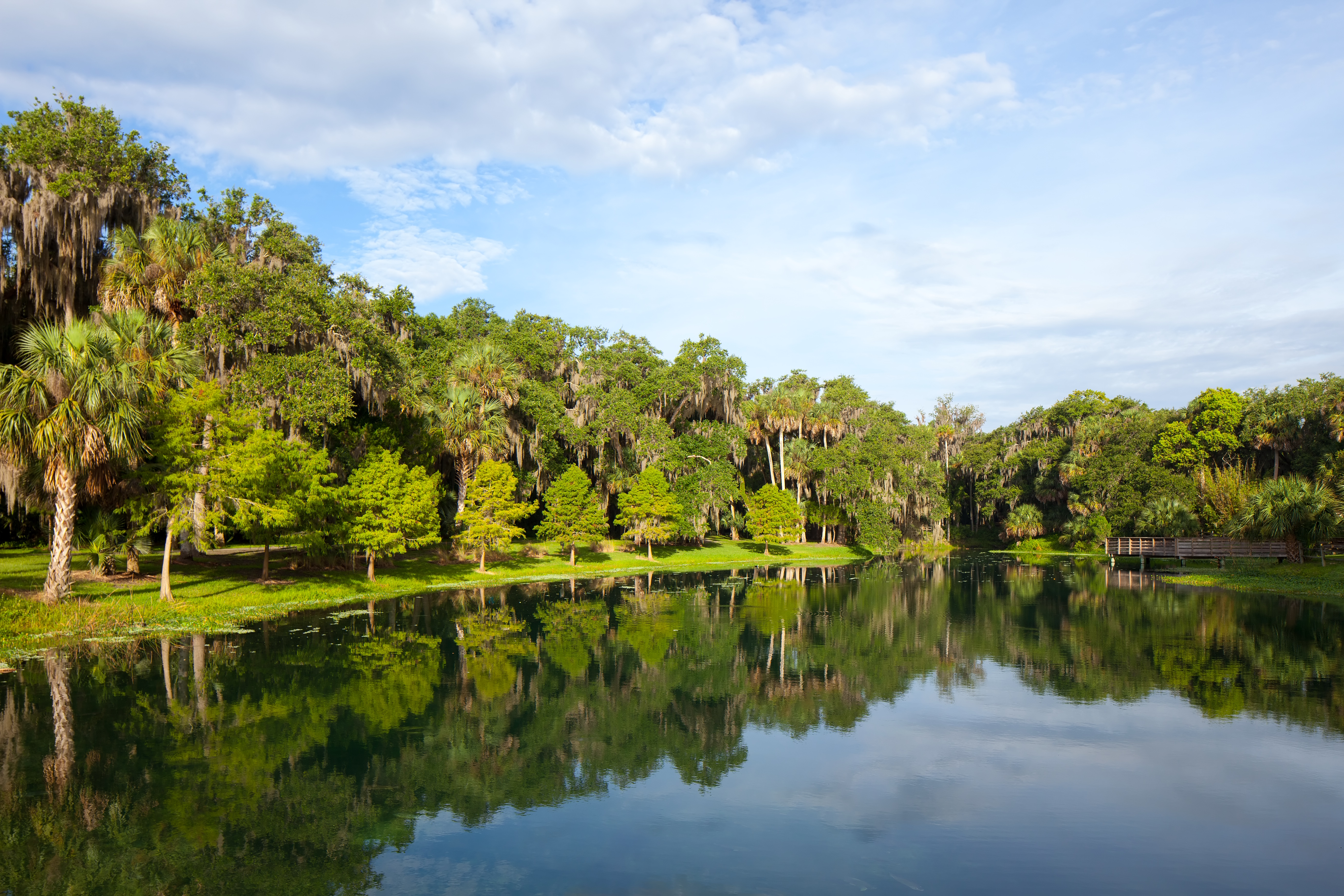 Gemini Springs Park, DeBary, Florida. View from the footbridge crossing the bayou looking toward the west.